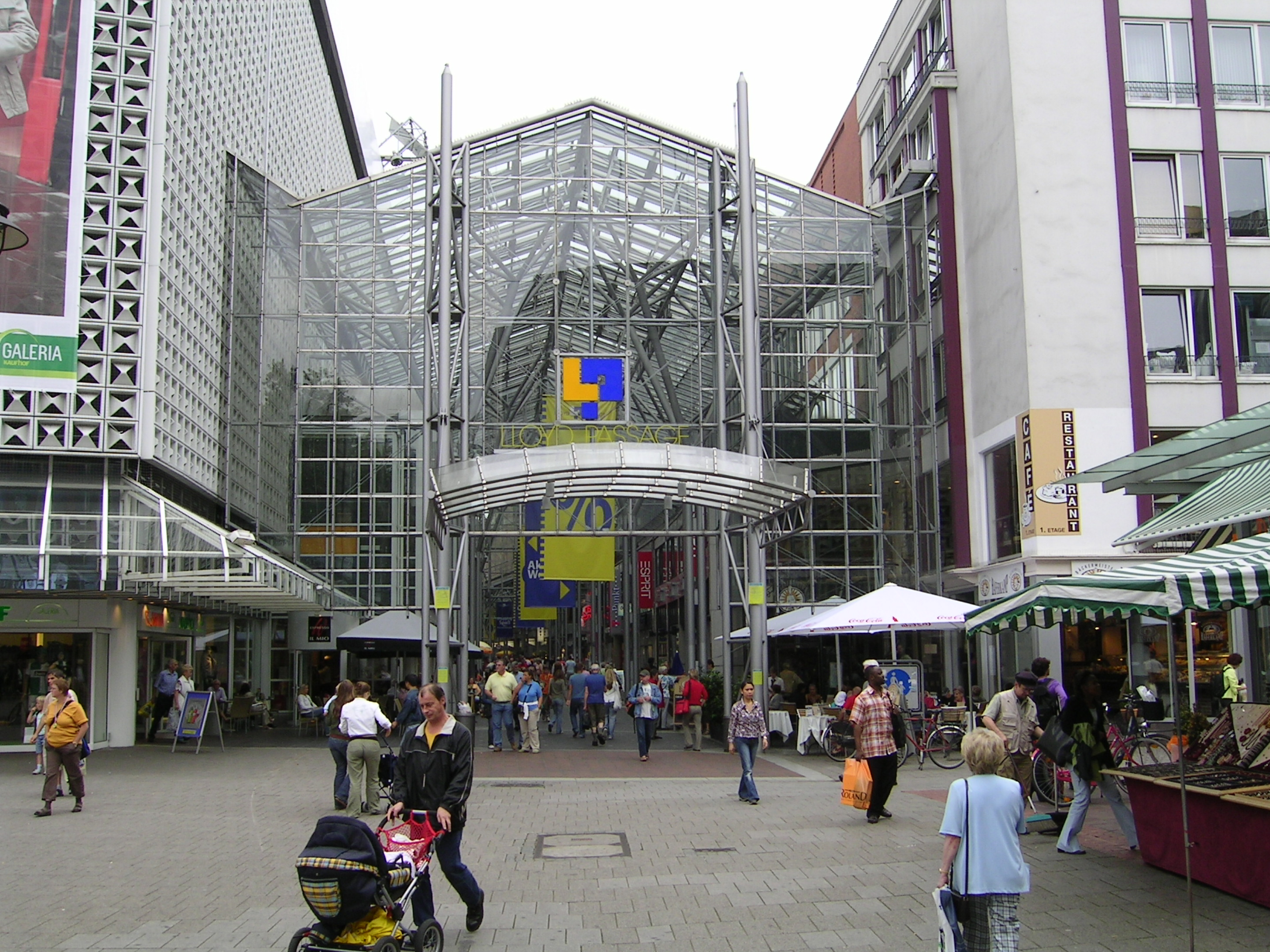 Template:Lloyd Passage, Bremen Template:Rami Tarawneh